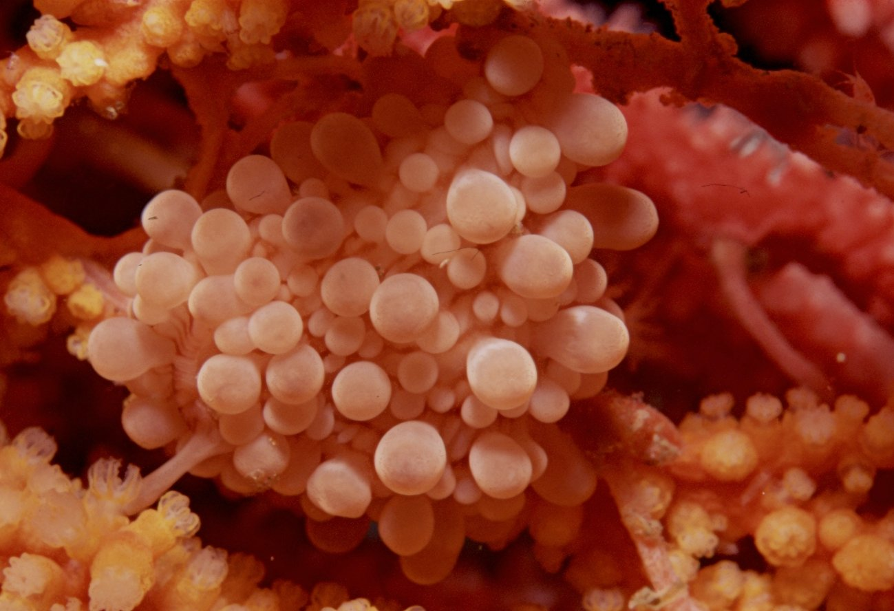 a close up photograph of a juvenile walking anemone, Preactis millardae, taken on the wreck of the Rockeater in about 28m of water in False Bay off Cape Town using a Nikonos V camera